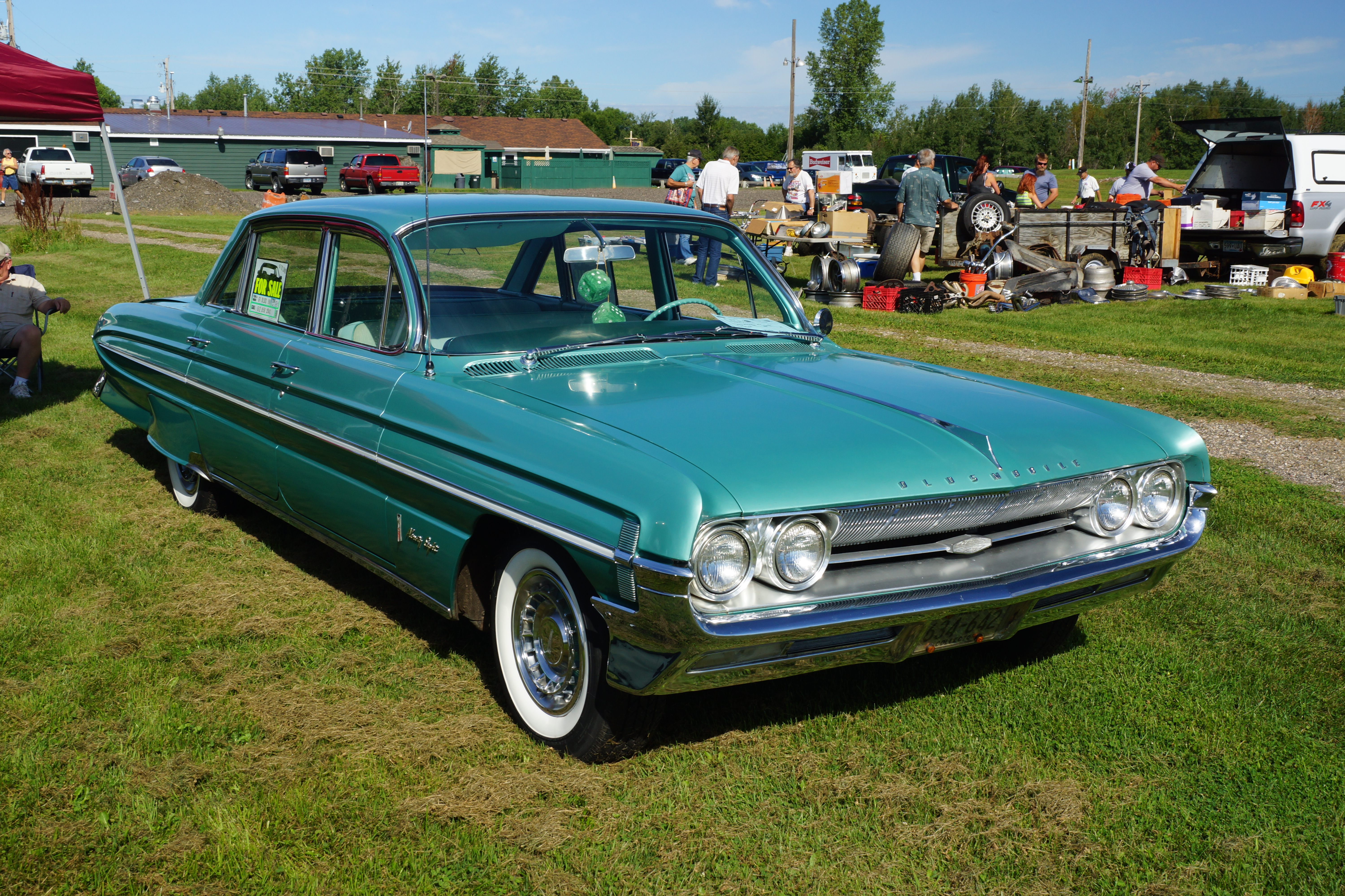 1961 Oldsmobile Ninety Eight